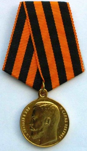 Medal of St. George 2nd class